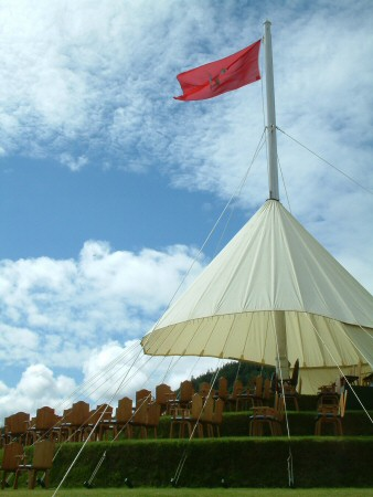 Tynwald Hill in St. John's, Isle of Man on Tynwald Day, pre ceremony